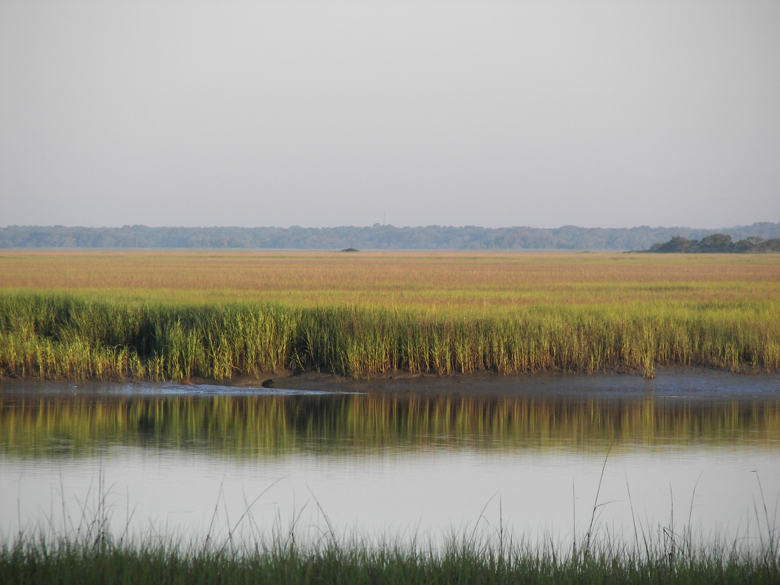 The marsh views from Hunting Island have become representative of the South Carolina Lowcountry.